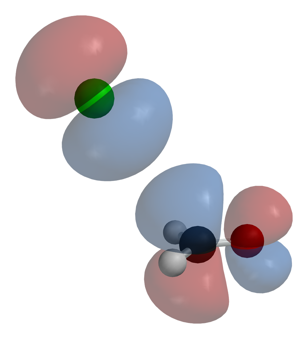 Ball-and-stick models of the HOMO of a nucleophile (chloride) overlapping with the LUMO of a carbonyl group (in formaldehyde)